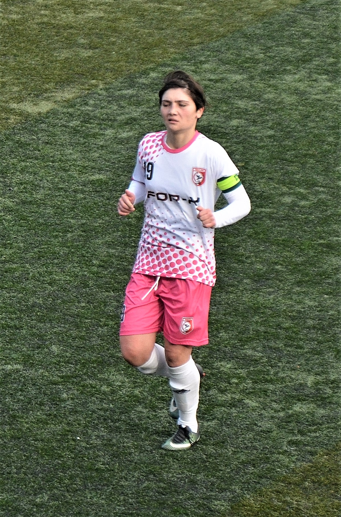 Tamari Tatuashvili playing for İlkadım Belediyesi Yabancılar Pazarı Spor in the away match against Kireçburnu Spor in the 2017-18 Turkish Women's First League.